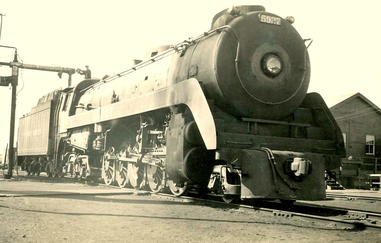 These were at home on the CPR mainline between Calgary and Kamloops where they could deal with the gradients but near the end of steam power on the CPR could turn up in Edmonton. The largest of Canadian locomotives, they were too big for the turntable here so had to be turned on the wye. Young Willi Olsen from Minnedosa (or was it Kindersley?) on the tender. Hardly out of school, he worked often as hostler's helper and even occasionally, if memory serves, as hostler. That would involve running even these behemoths around the shop tracks for water, sand, oil, etc. It was a job that led traditionally to the position of fireman (I don't expect there were any 'firepersons' at this time) and eventually engineman. Teenagers were trusted by a lot of the older railroaders many of whom had probably started their own railroad careers at a young age. This was taken in the summer of 1957. It must have been one of the last appearances in Edmonton of a 5900.